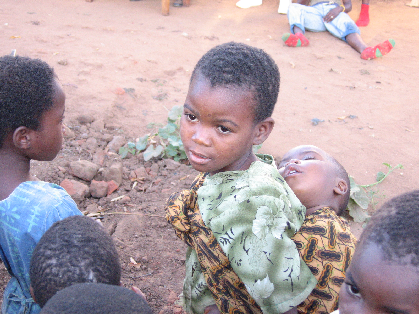 Aids orphans in Malawi, Africa. The sight of a young girl with a baby on her back is common in Malawi, where there are close to 2 million orphans and vulnerable children out of total population of 13 million people. In other words, almost 1 out of every 6 people in the country is either an orphan or a vulnerable child.